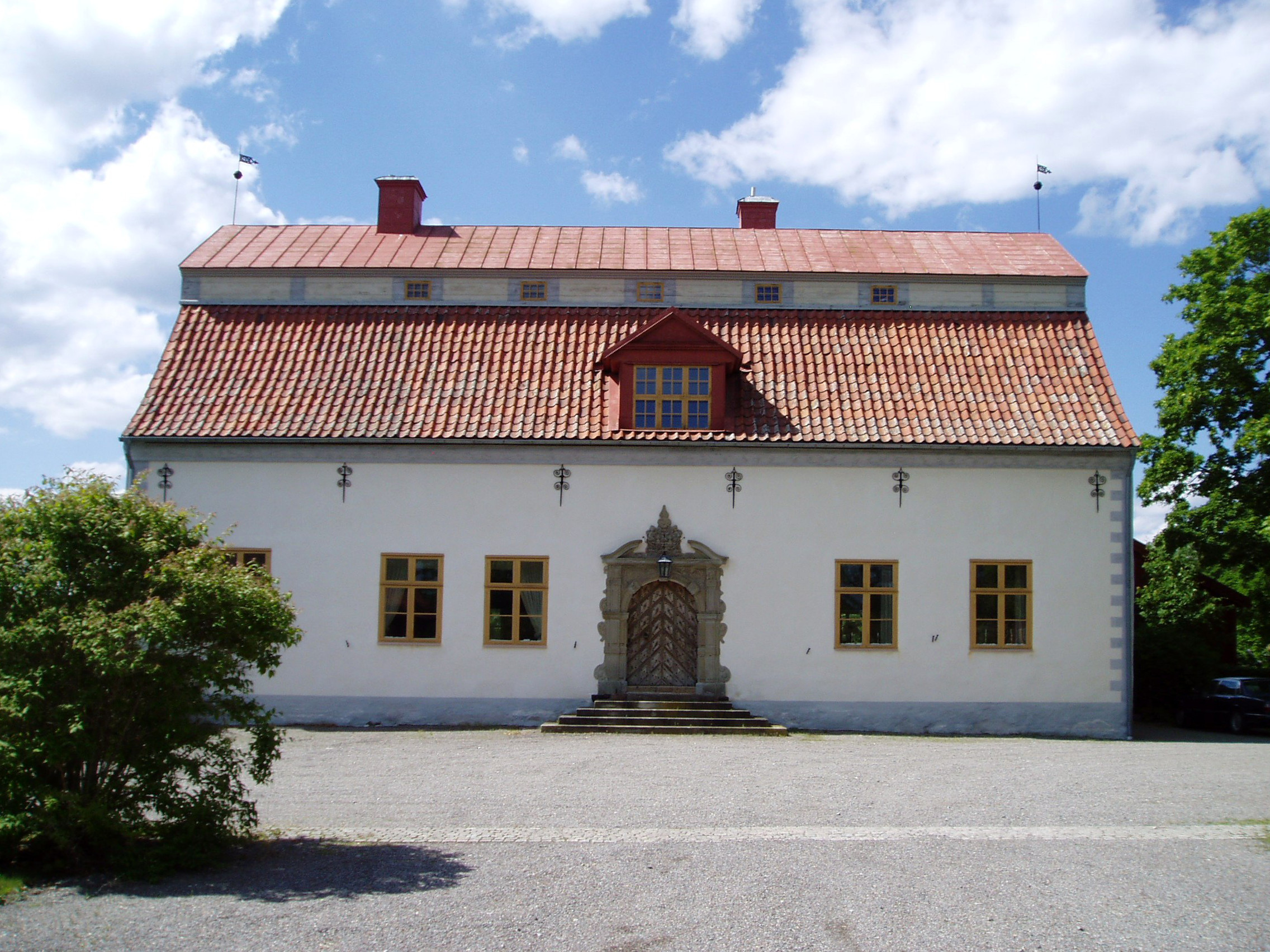 Lämshaga mansion, Värmdö municipality, Sweden